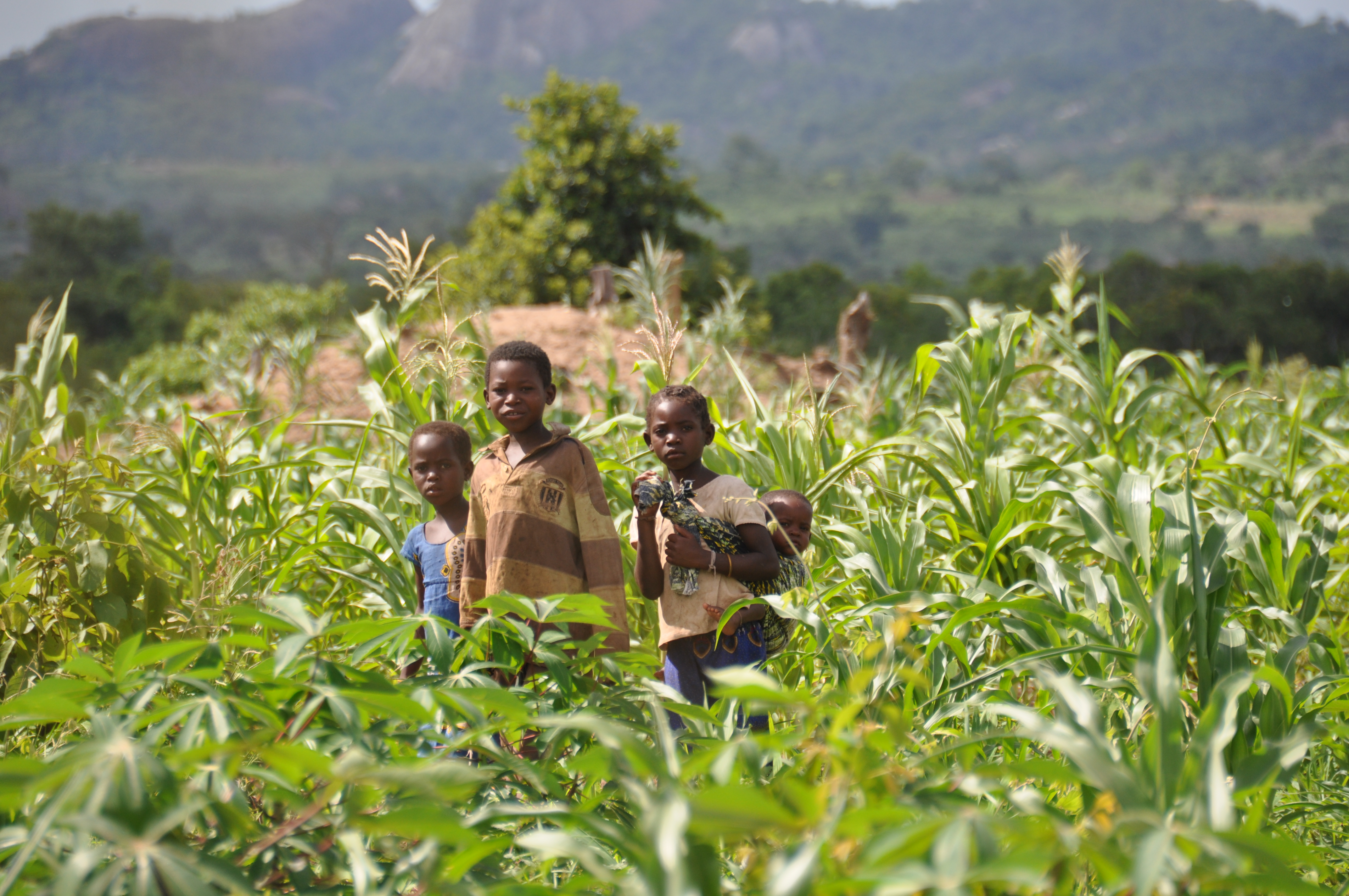 Children look on from the corn fields of Davane Mesa Paulo, a USAID Food for Peace beneficiary.